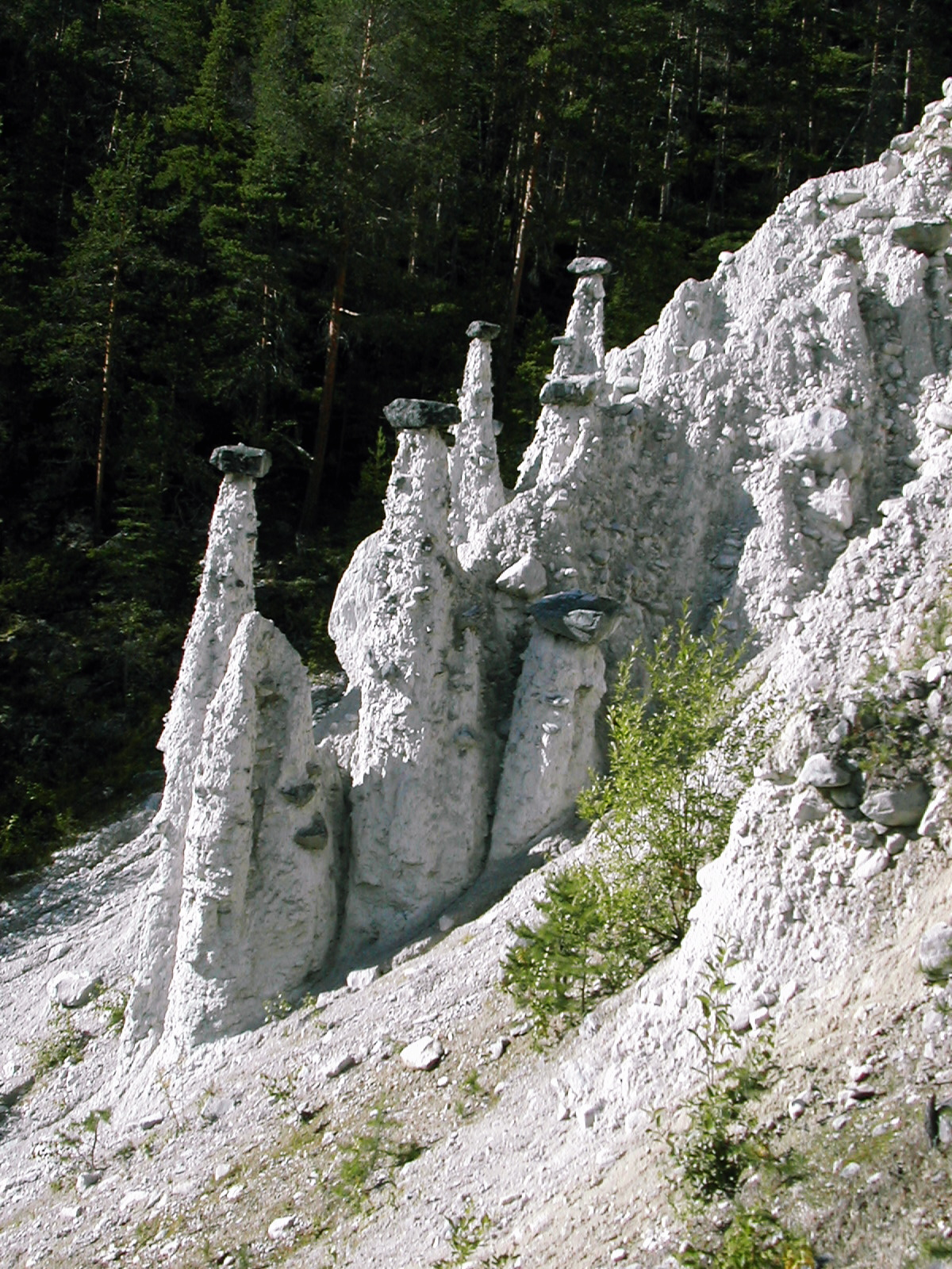 Kvitskriduprestin is an erosion feature in the municipality of Sel, Norway.